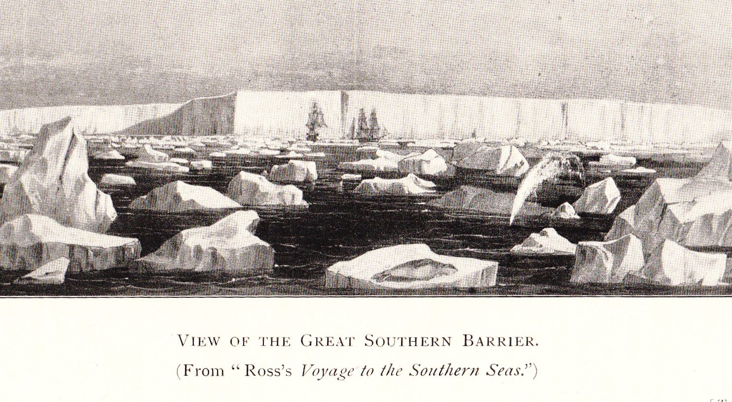 1843 Drawing of the "Great Ice Barrier" (Ross Ice Shelf, Antarctica) from Voyage to the South Seas by James Clark Ross